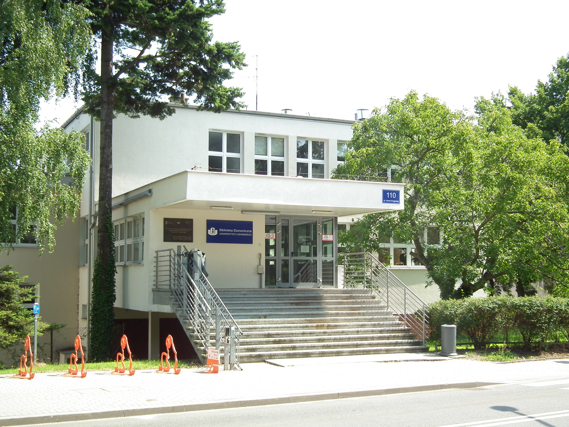 Library of Faculty of Economics of University of Gdansk, SOPOT, POLAND